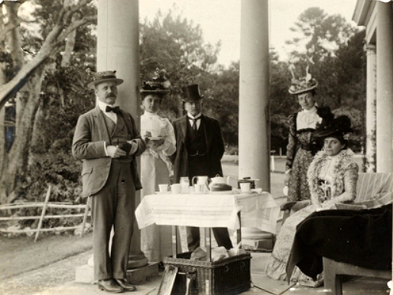 Afternoon tea at Stickland House in 1898 when it was owned by the Allen family